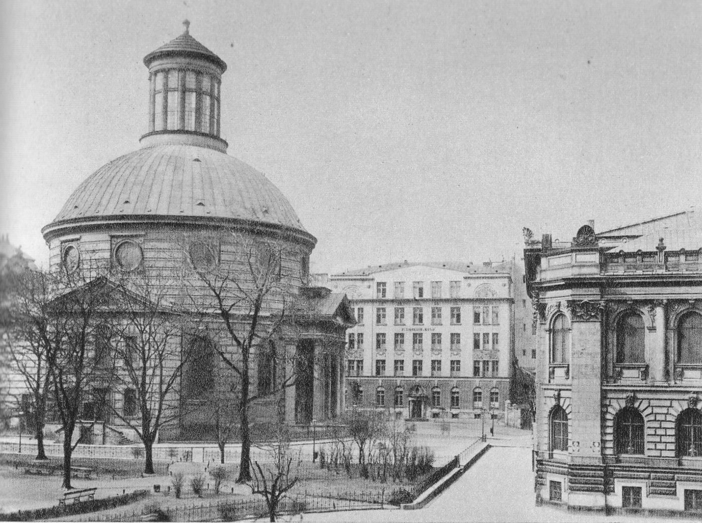 Małachowski Square in Warsaw